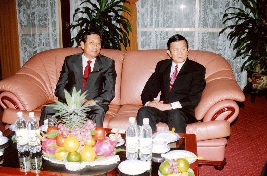 Kim Ki Jae, a former minister of the Ministry of the Interior (Korea)